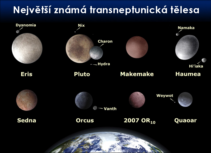 Comparison of the eight largest TNOs – Eris, Pluto, Makemake, Haumea, Sedna, Orcus, en:2007 OR10, Quoaoar